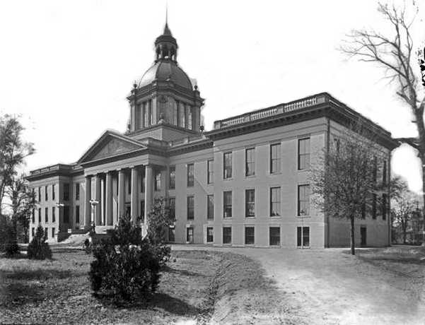 Local call number: HA00104 Title: Florida State Capitol building: Tallahassee, Florida Date: ca. 1902 Physical descrip: 1 glass photonegative - b&w - 8 x 10 in. Series Title: Alvan S. Harper Collection Repository: State Library and Archives of Florida, 500 S. Bronough St., Tallahassee, FL 32399-0250 USA. Contact: 850.245.6700. Persistent URL: Visit Florida Memory to see more photos by Alvan S. Harper. Visit Florida Memory to see more images of Florida's Historic Capitol.